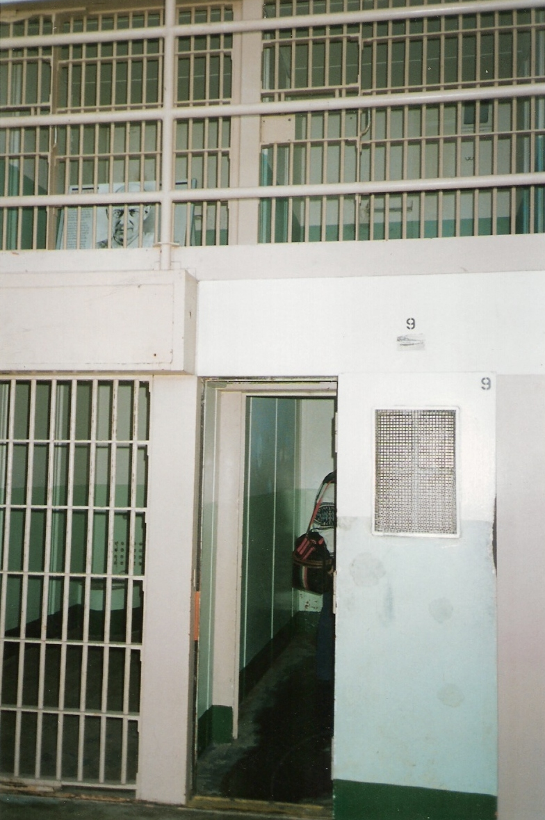 the cell of robert stroud, alcatraz, u.s.a